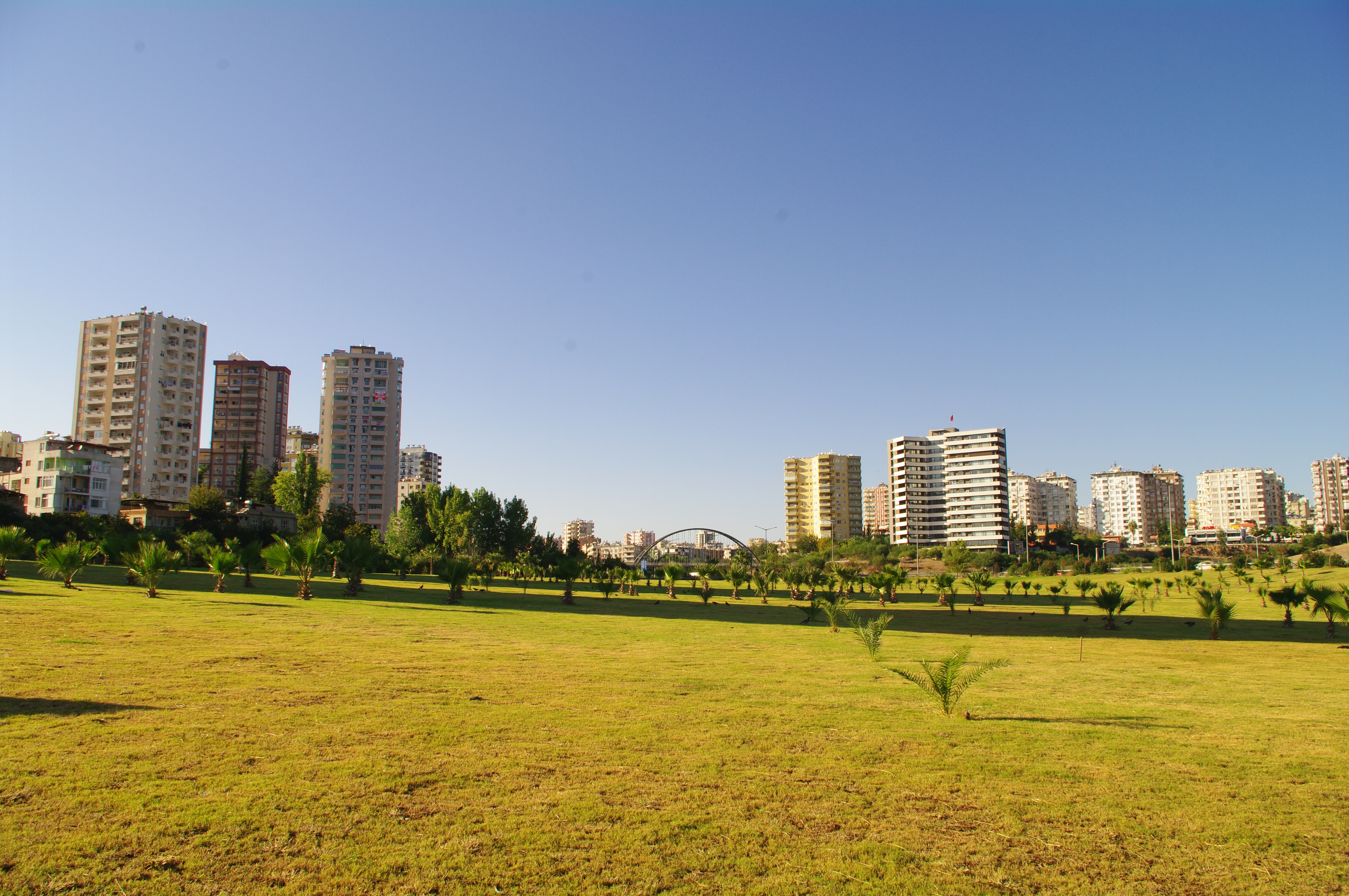 A view of Beyazevler Mah. from Dilberler Sekisi Park in Çukurova, Adana - Turkey.